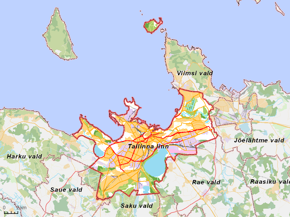 Map of municipality in Estonia